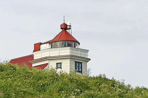 Hekkingen lighthouse outsite Tromsø, Norway.